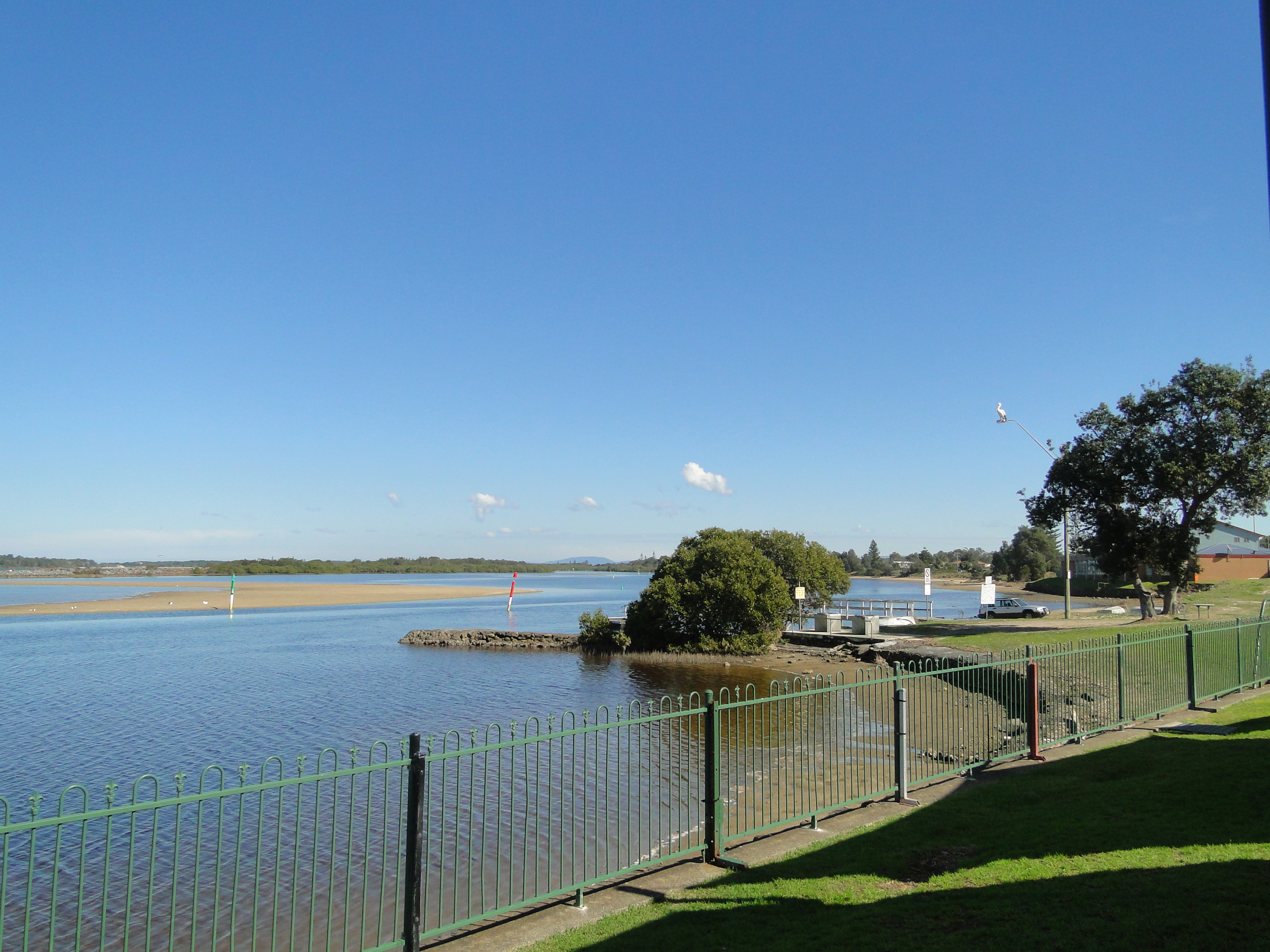 View of the Manning River from the verandah of the Harrington Hotel, Harrington, New South Wales, Australia. Note the pelican perched on the light pole.